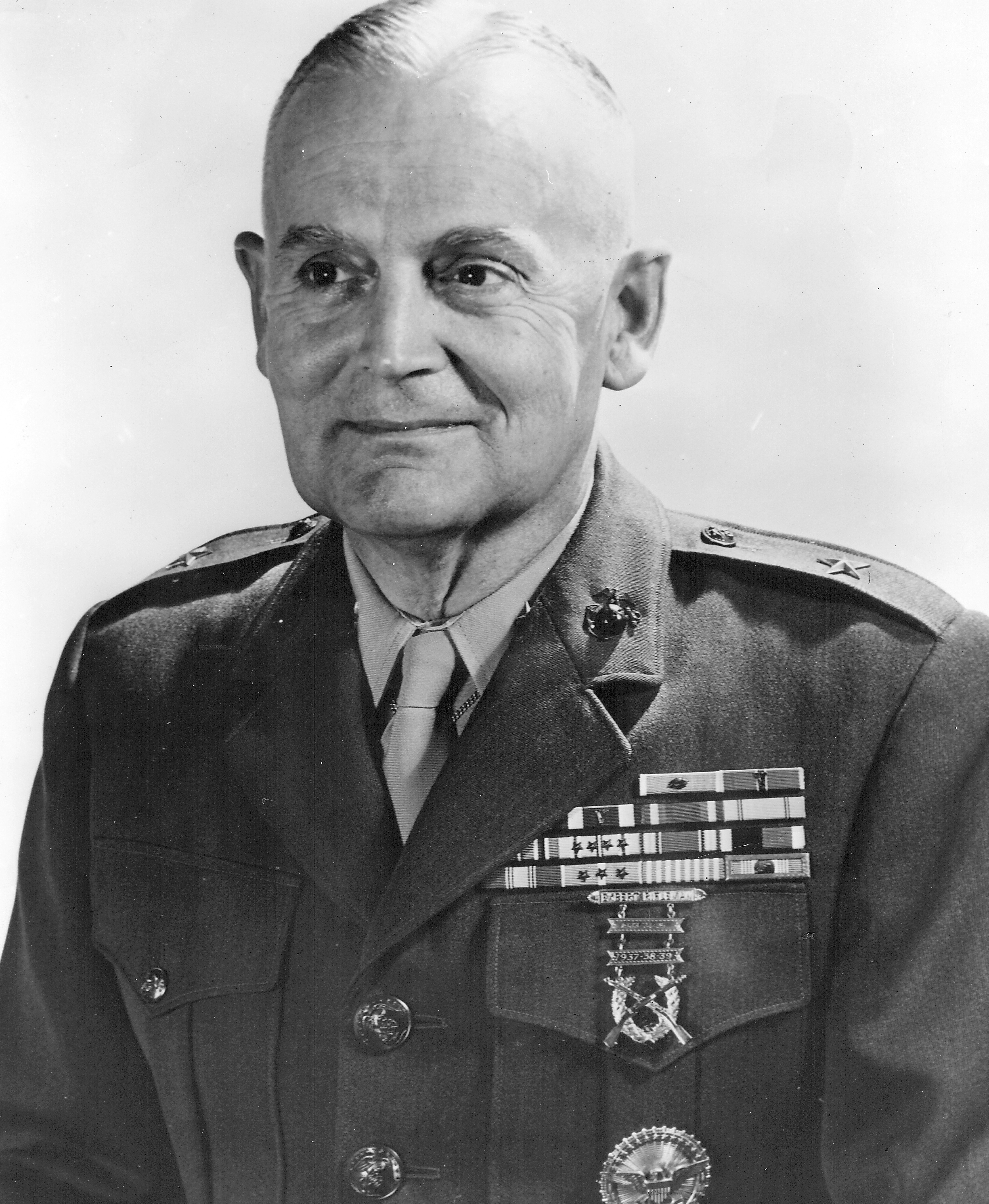 Edward Hanna Forney (August 16, 1909 - January 21, 1965) was a highly decorated officer of the United States Marine Corps with the rank of Brigadier general. He is most noted for his part during the Hungnam evacuation during the Korean War, the largest U.S. amphibious evacuation of civilians, under combat conditions, in American history.